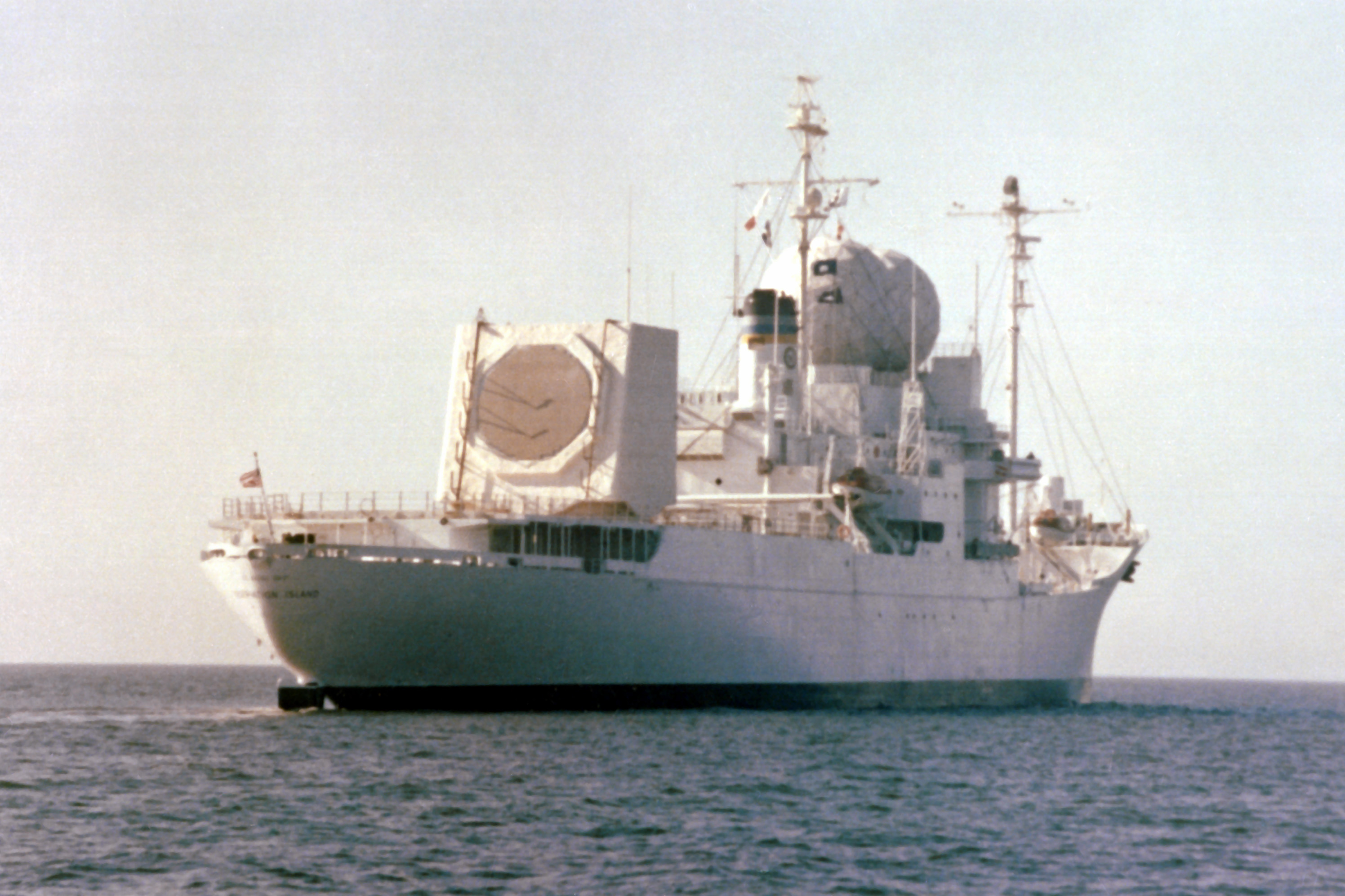 A starboard quarter view of the missile range instrumentation ship USNS Observation Island (T-AGM-23) underway during exercise Cobra Judy, an exercise to test the ship's seaworthiness. Observation Island, which has been undergoing modifications, is now equipped with a phased-array radar turret on its stern.